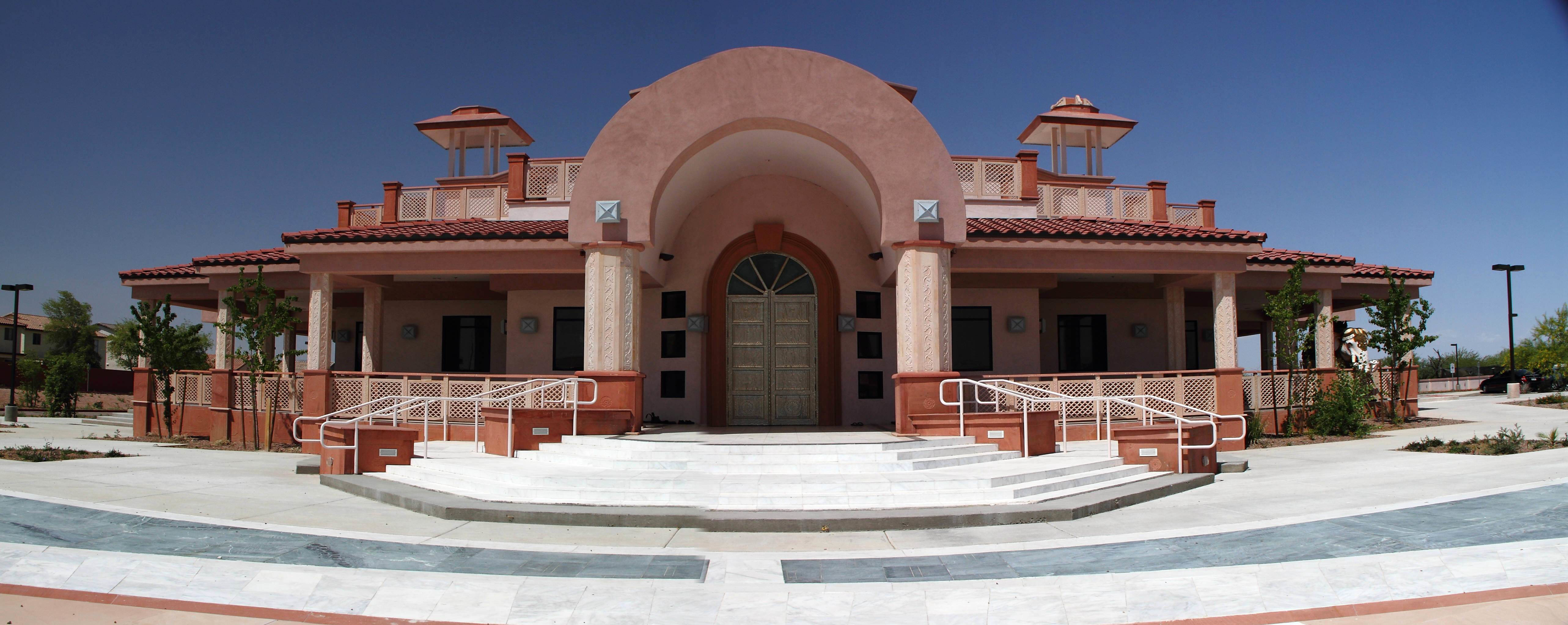 Main Prayer Hall